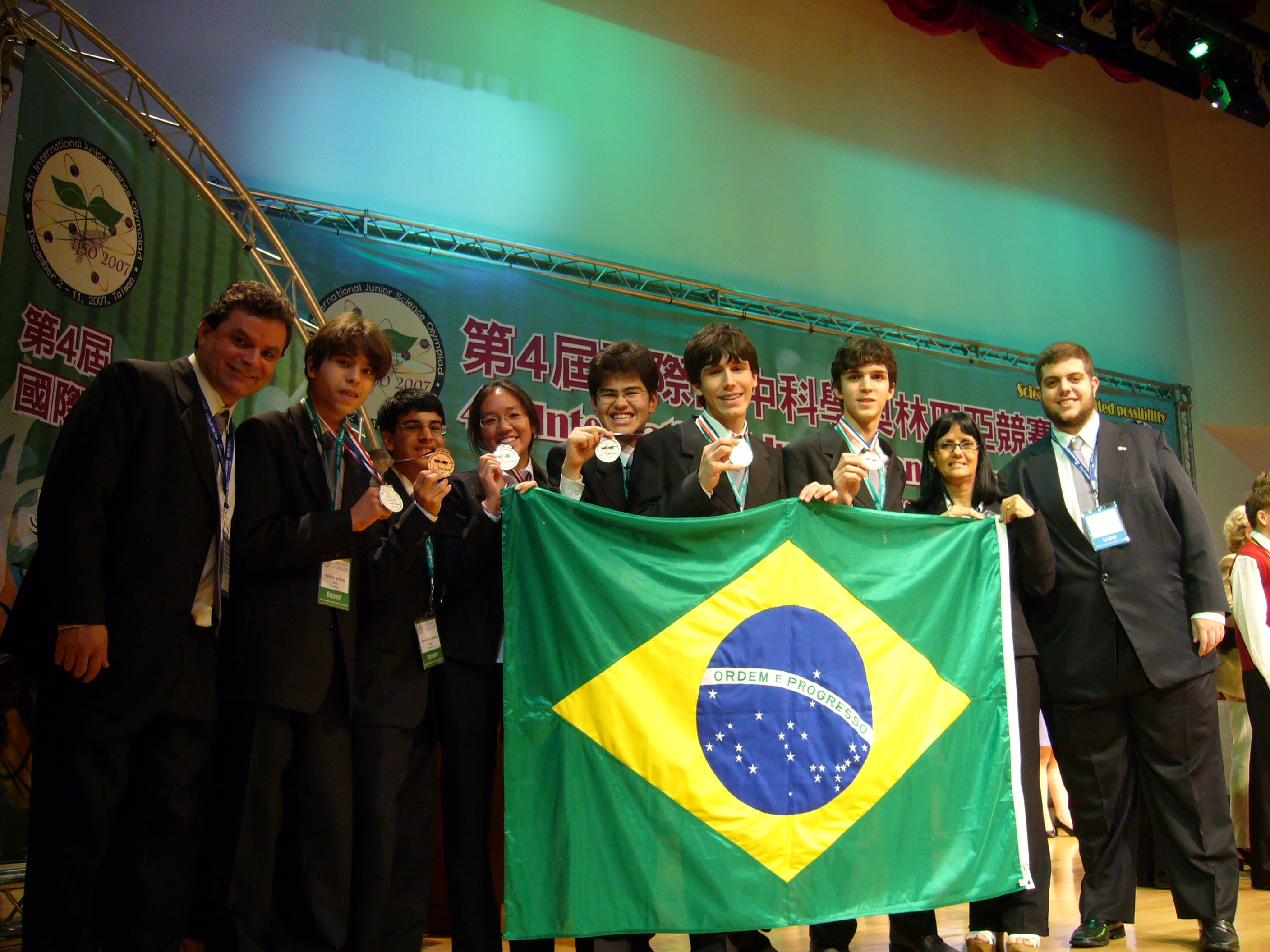 Brazilian team from IJSO 2007